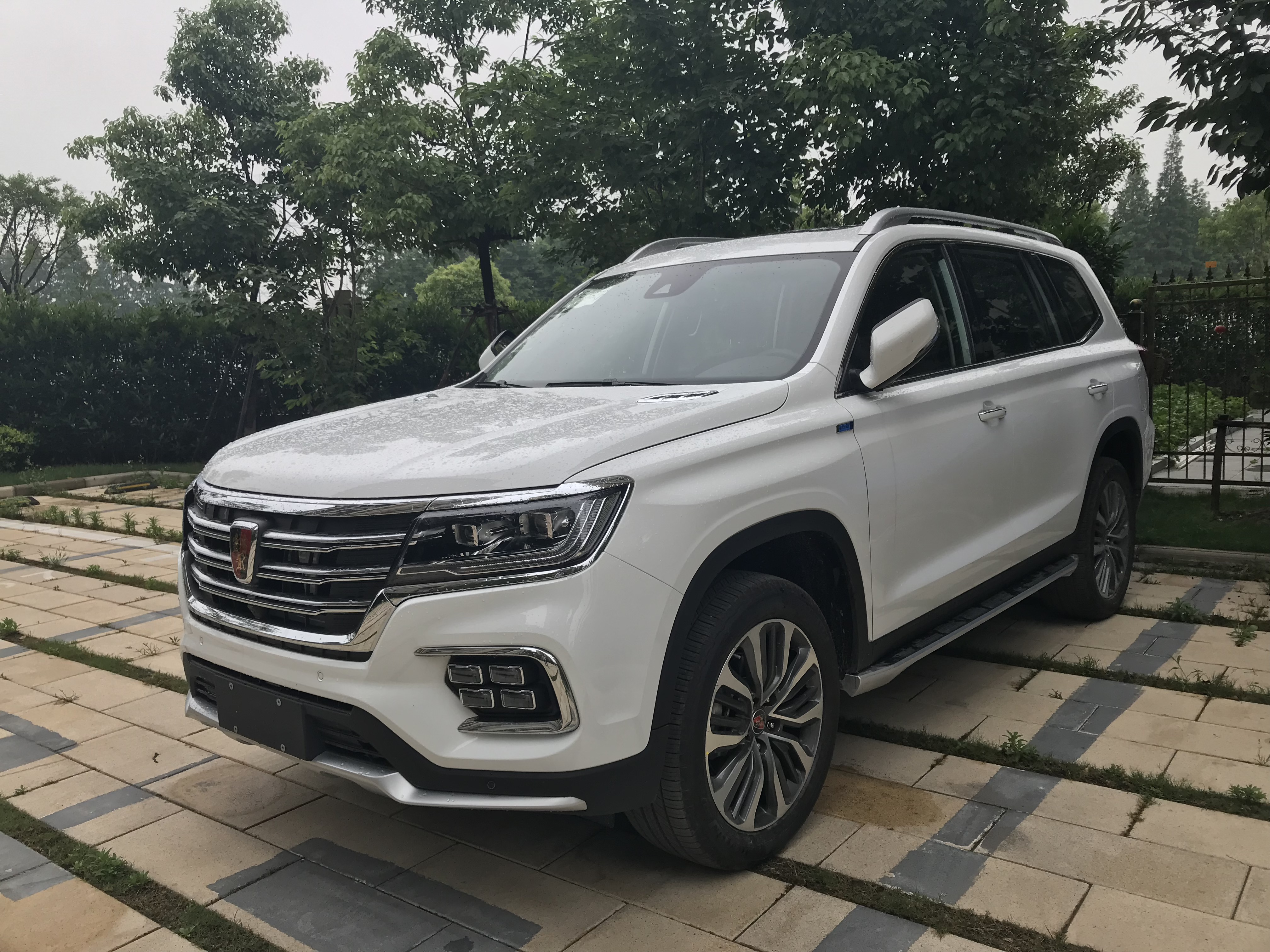 Roewe RX8